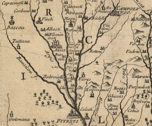 Section of the Cantacuzino map showing the Wallachian towns of Piteşti, Câmpulung (Muscel) and Curtea de Argeş, with a section of the border between Argeş and Muscel counties.